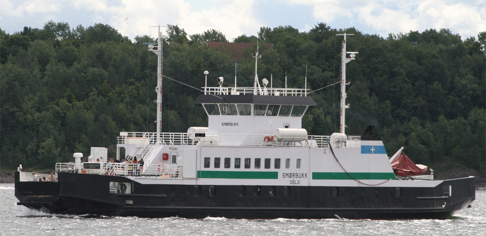 The ferry «Smørbukk» on its way from Nesodden to Oslo harbour.